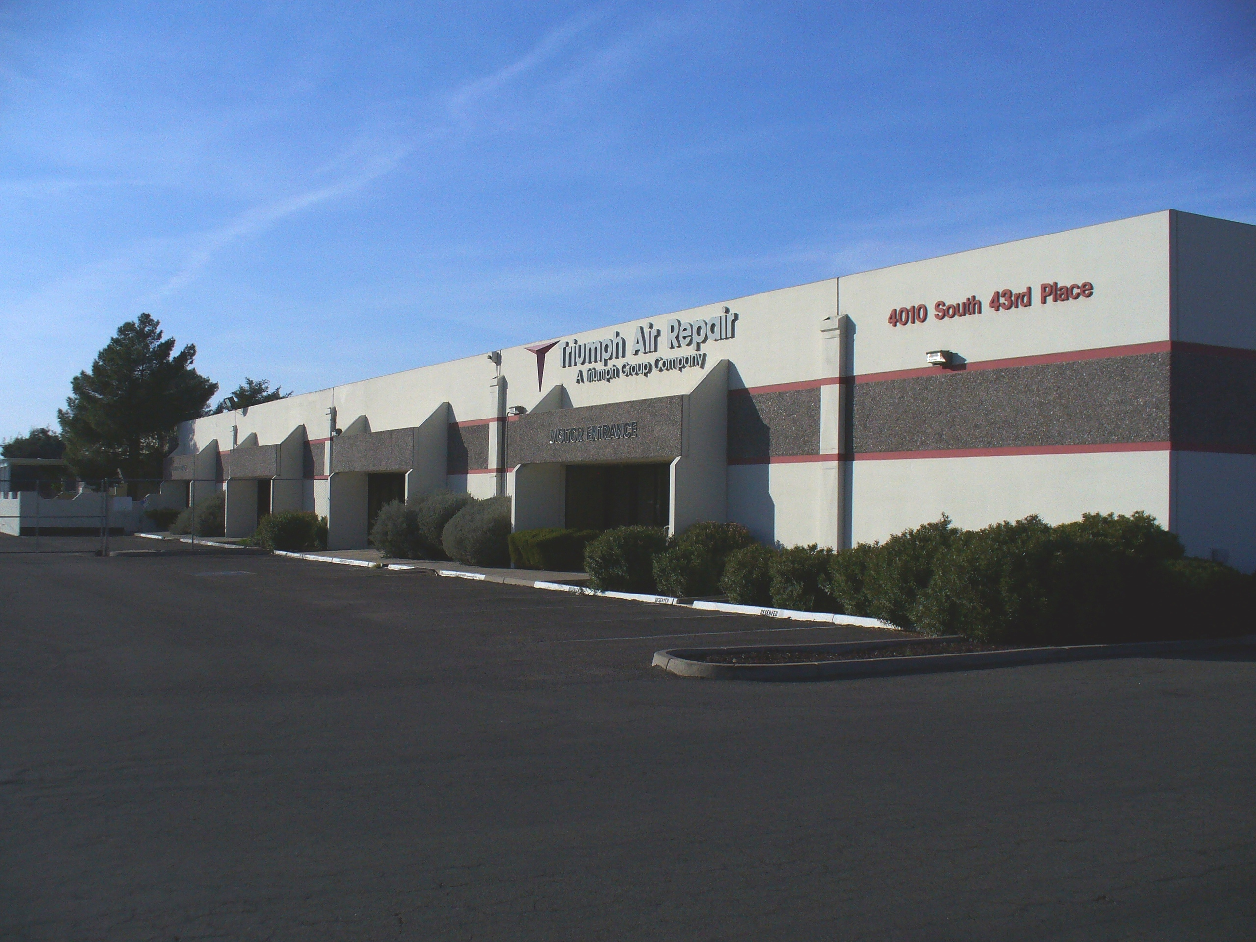 Triumph Air Repair in Phoenix, Arizona